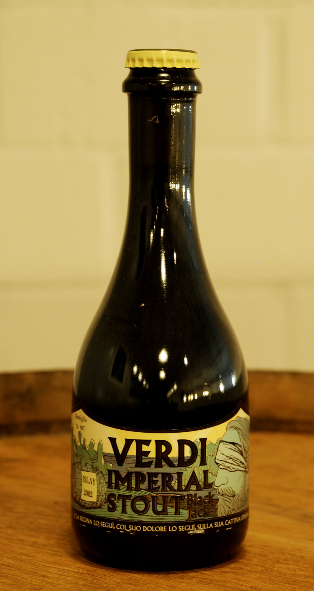 Beer Verdi Imperial Stout, Birrificio Del Ducato, Italy